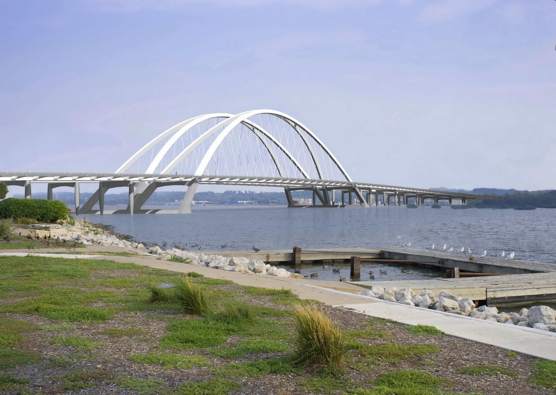 I-74 bridge replacement - Architect Rendering